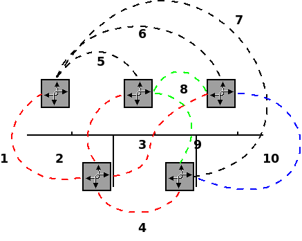 Network diagram with all nodes being interconnected.